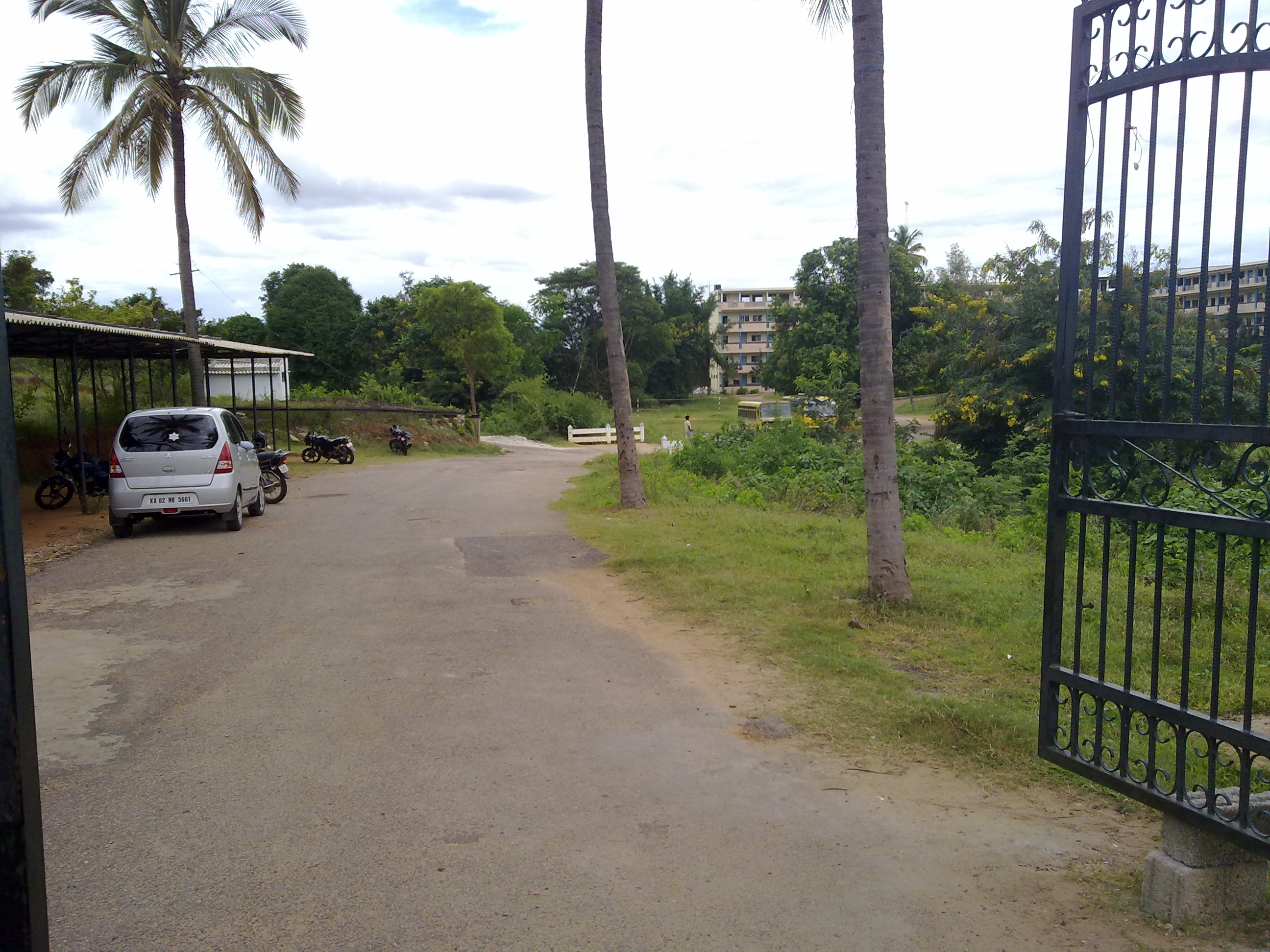 gssit college gate